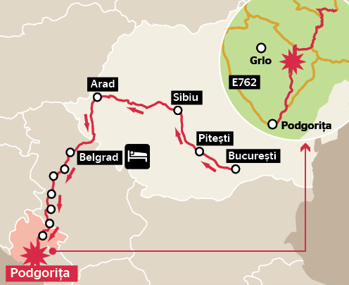 Route of the bus